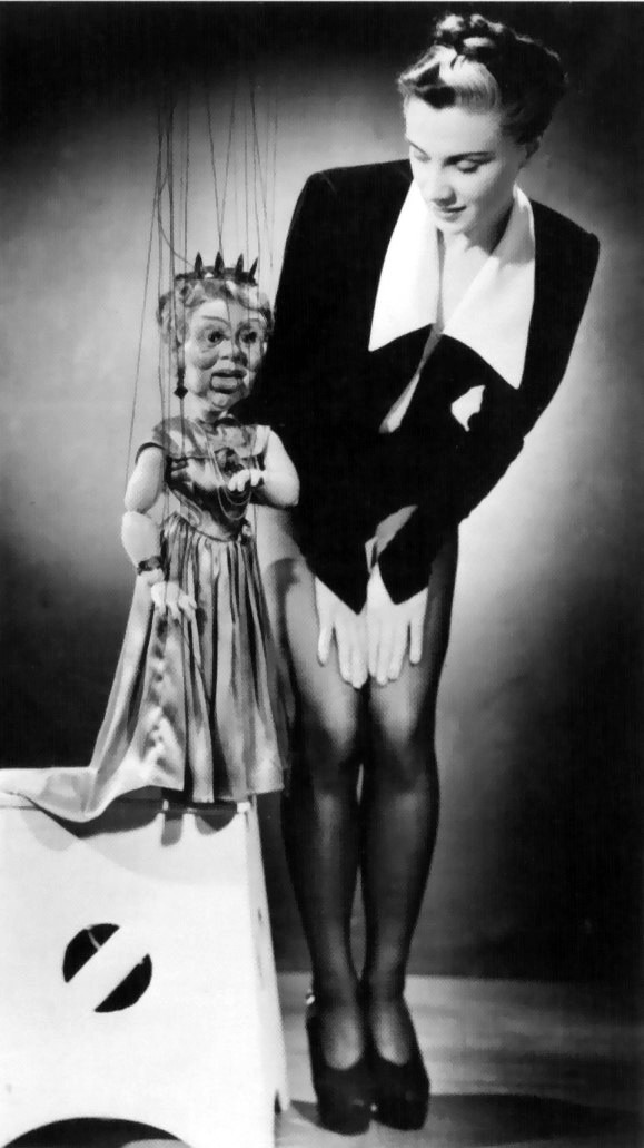 Rene Strange with puppet